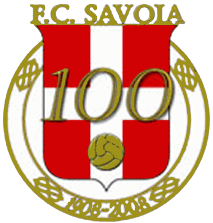 FC Savoia 1908 2008 club centennial logo